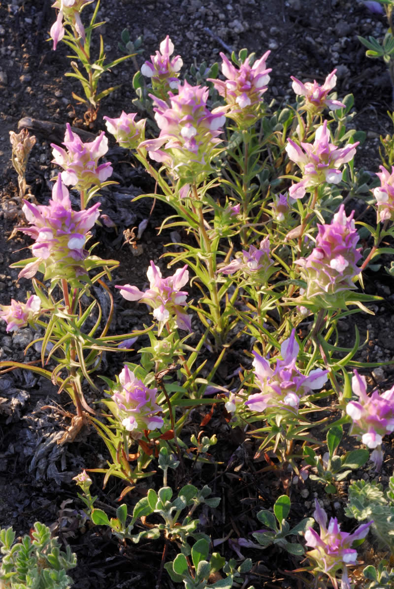 Orthocarpus cuspidatus ssp. cuspidatus. US Forest Service photo, no copyright.